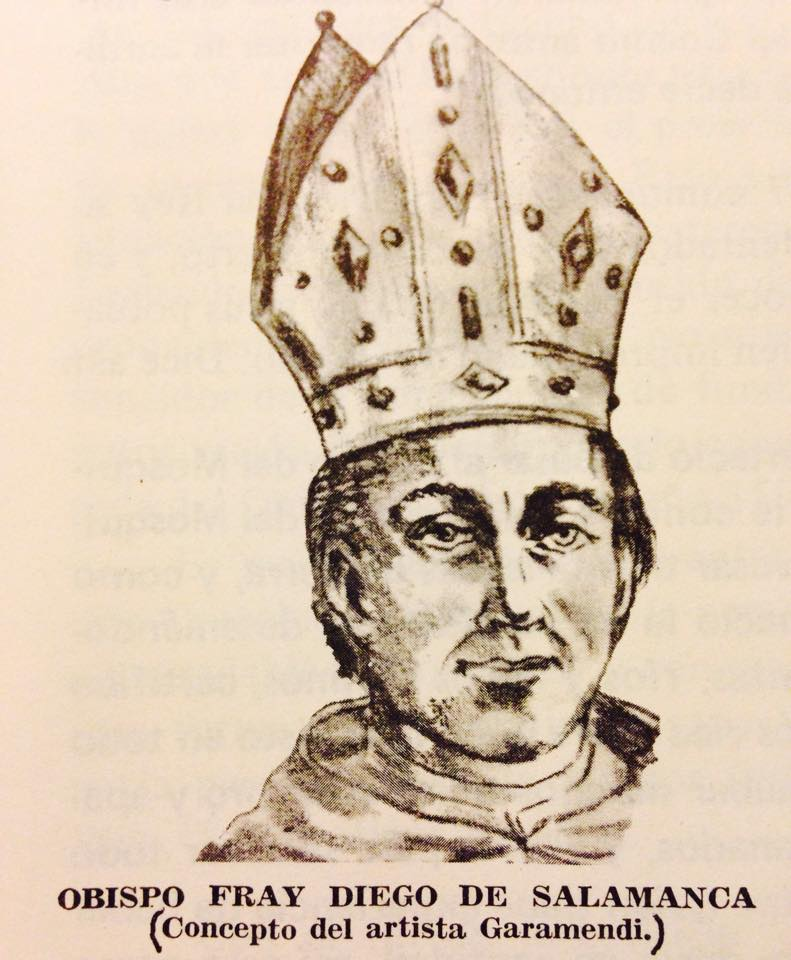 (Concepto del artista Garamendi)